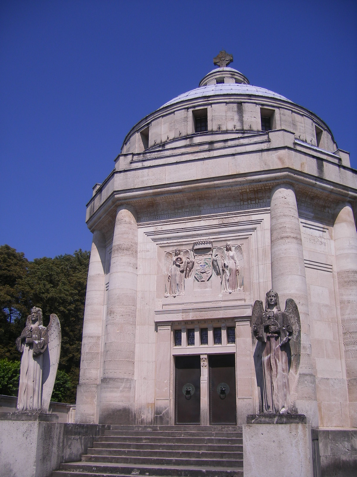 Krásnohorské Podhradie - mausoleum of Andrássy Dénes